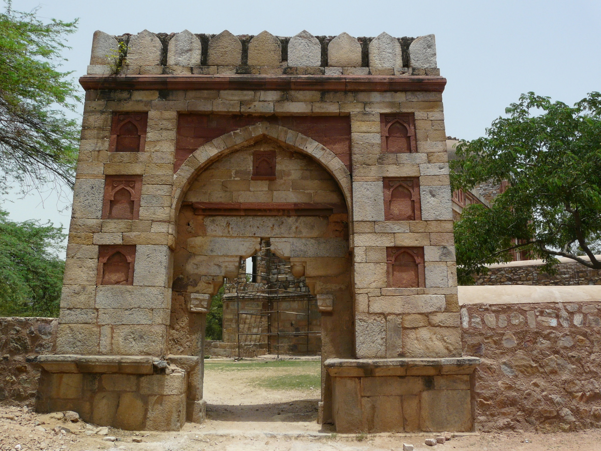 Entrance archway leading to enclosure near Jamali Kamali.